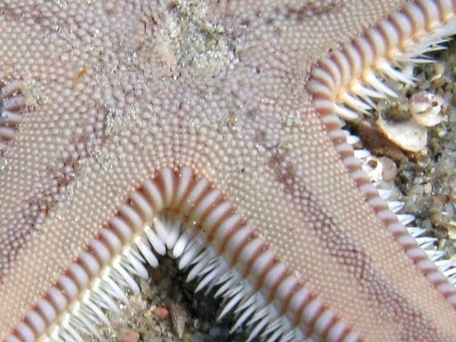 Astropecten irregularis pentacanthus